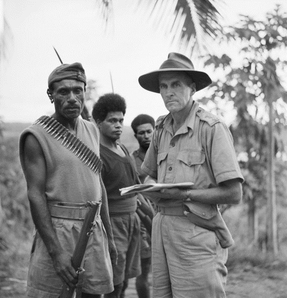 WAIWAI, NEW GUINEA. 1942-10. CAPTAIN T. GRAHAMSLAW, ANGAU, BRIEFING SERGEANT-MAJOR KATUE OF THE PAPUAN INFANTRY BATTALION AND NATIVE POLICE OF THE ROYAL PAPUAN CONSTABULARY PRIOR TO THEIR DEPARTURE ON A PATROL.